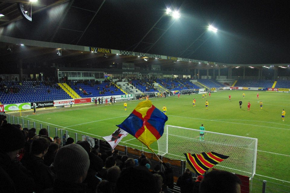 NV Arena